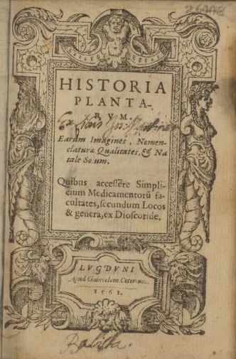 Antoine Du Pinet, Historia plantarum, 1561 tp